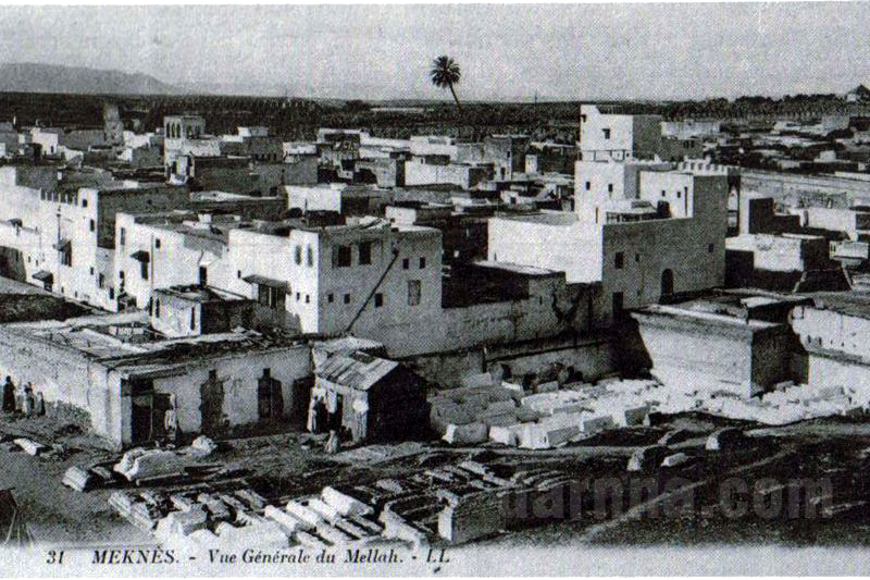 Mellah (Jewish quarter) of Meknes Morocco